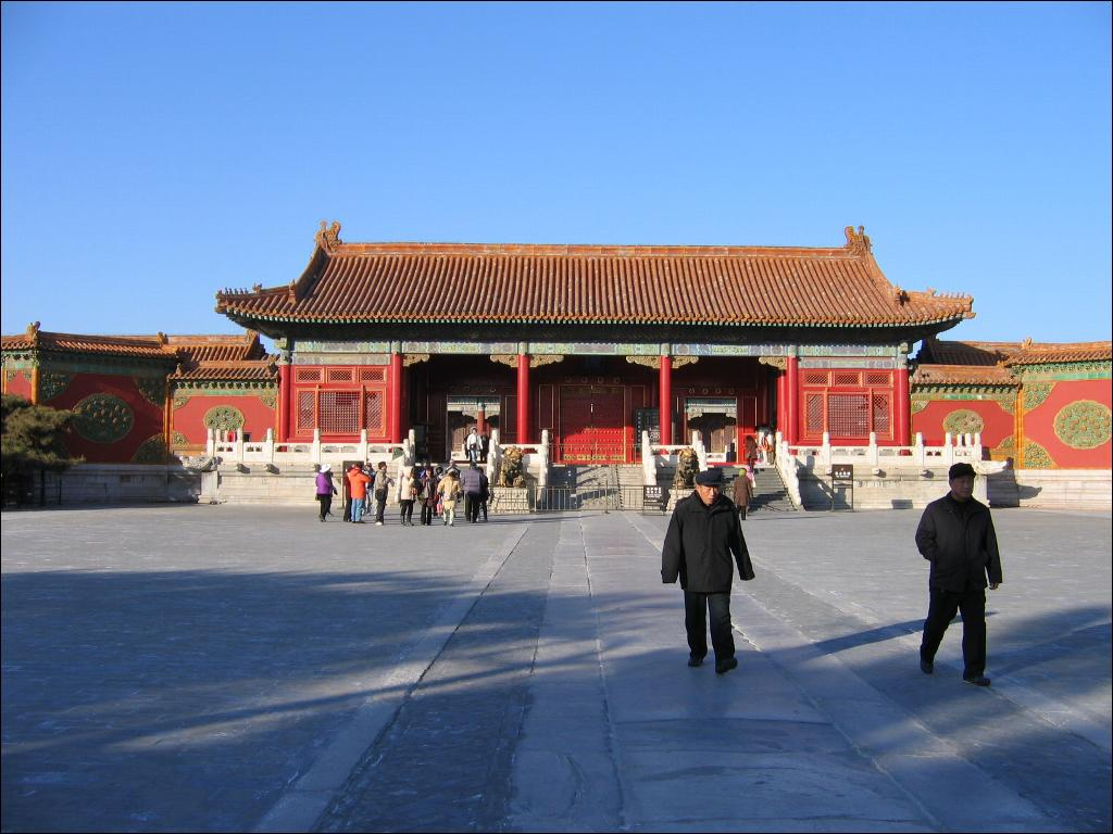 The Forbidden City in Beijing